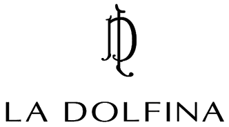 Logo of La Dolfina, an Argentine polo team which has also a clothing brand with the same name.